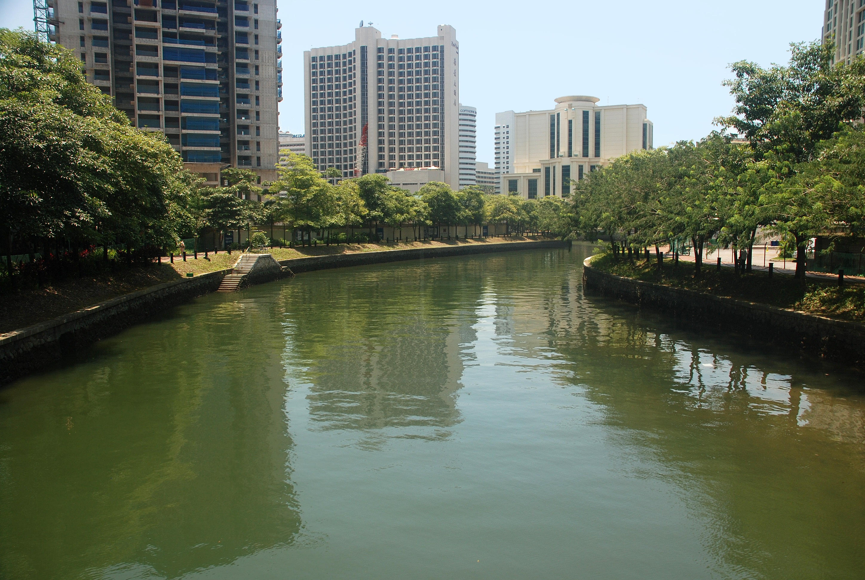 Jiak Kim Bridge section of the Singapore River, Singapore.